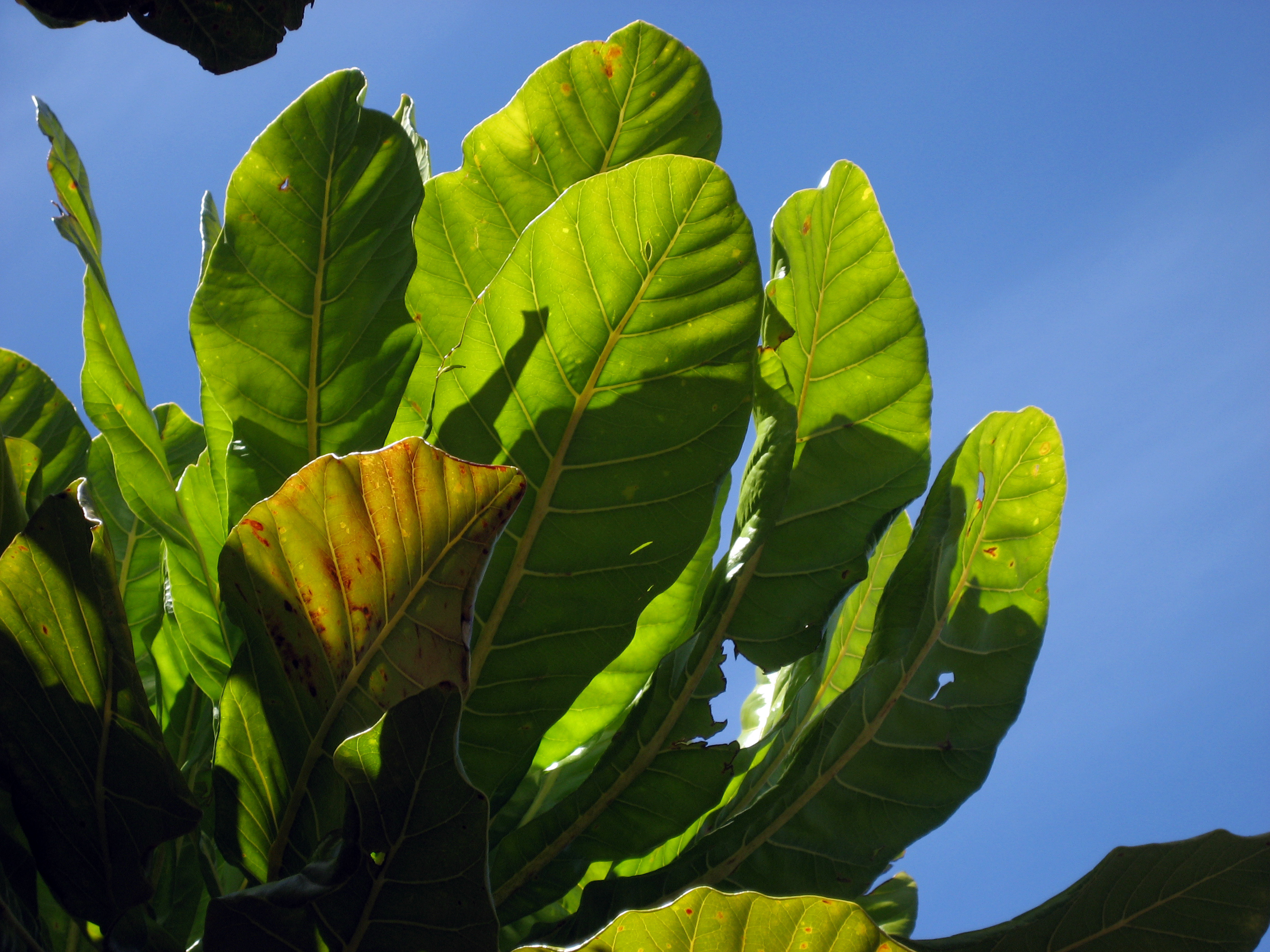 Foliage of Meryta denhamii, from a tree growing in cultivation at Manukau City, New Zealand